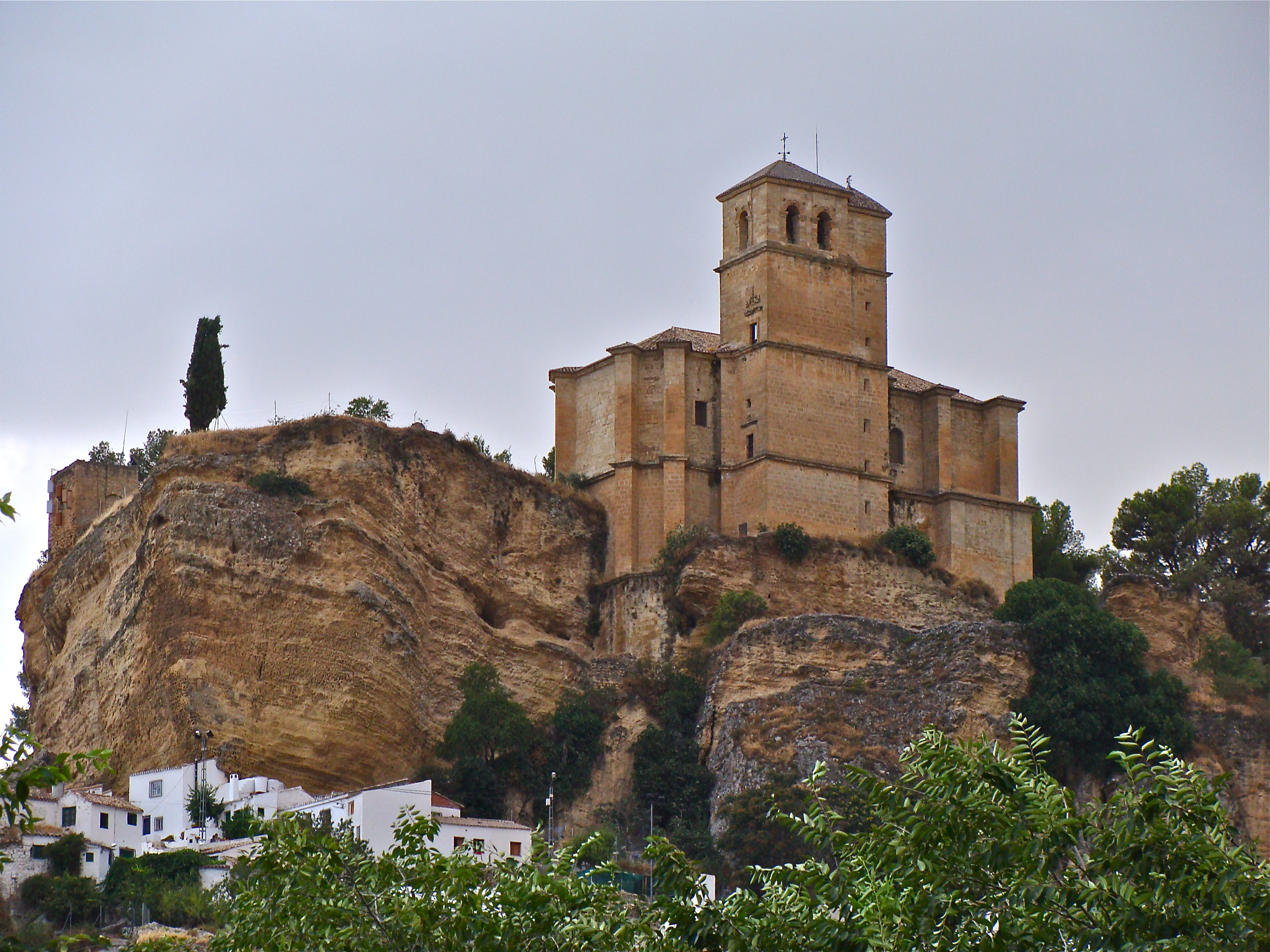 Montefrio, Granada, Spain